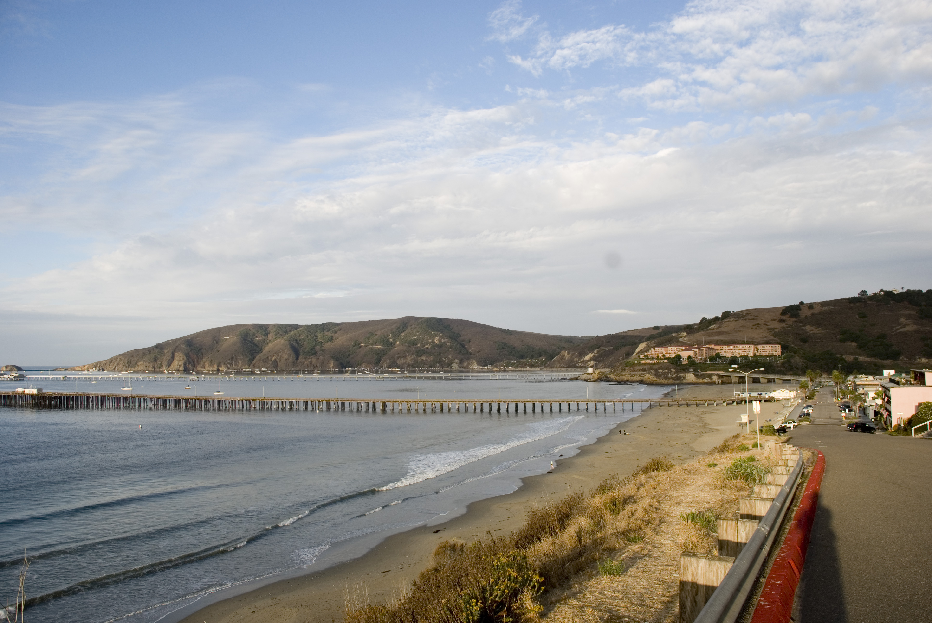 Avila Beach, California, taken on the morning of October 12, 2007, from the eastern end of Front Street.